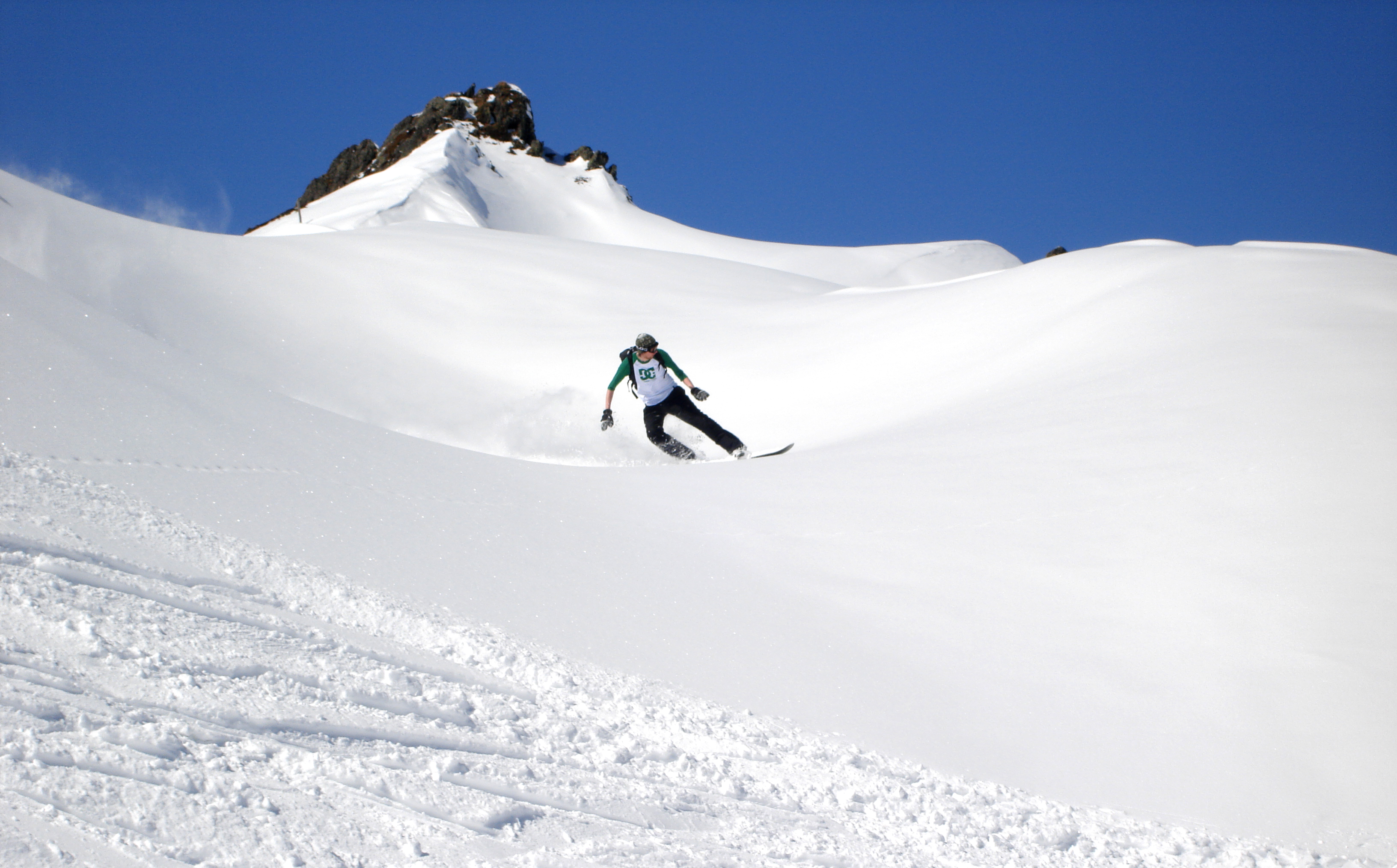 I'm looking at this picture to cool down, even though it was a hot day then! (note the shortsleeve T)